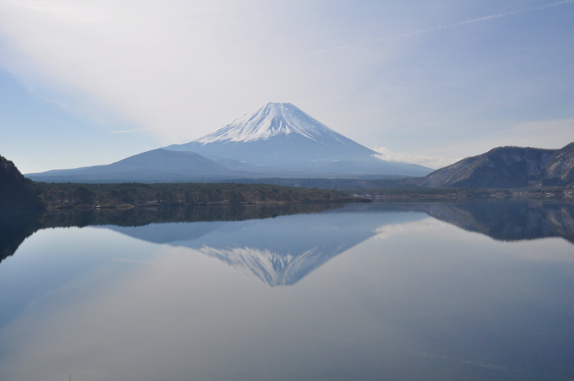 Mount Fuji seen from Lake Motosu. This composition also called Sakasa Fuji (Upside-down Mt. Fuji).